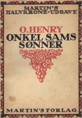 Cover of O. Henry's Onkel Sams Sønner